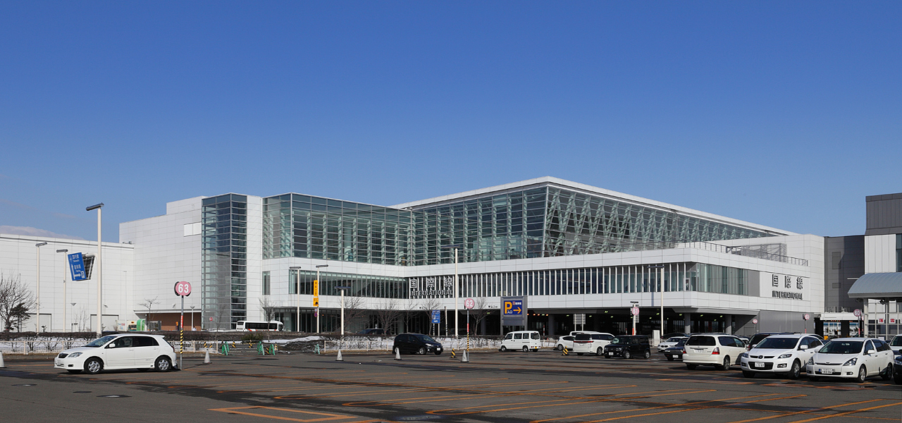 New Chitose Airport International Terminal (Southeast side.).